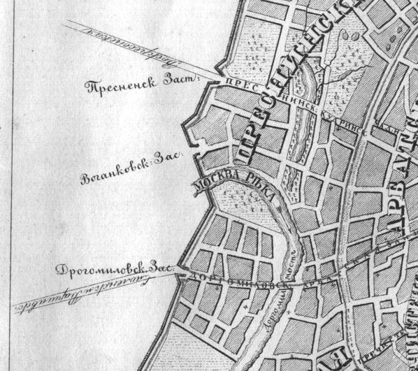 K. Nisterom. Moscow 1846 Plan of Moscow, 1 page. Without scale